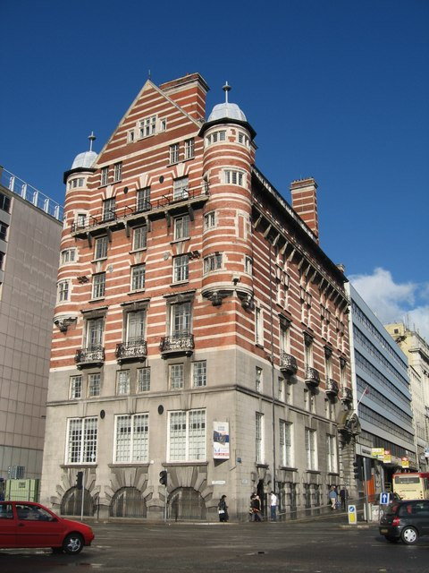 Albion House, James Street/Strand Street The unusual Albion House, the Oceanic Steam Navigation Company building formerly the White Star Line. T.H.Ismay founded the shipping line in 1869 and all the ships' names ended "ic" as in "Majestic", "Olympic" the most famous being the "Titanic" which sank in 1912 with a loss of nearly 1500 people. The building was surrounded by an anxious crowd seeking information on the fate of the ship and her passengers and White Star Line officials had to shout down the news from the balconies above.